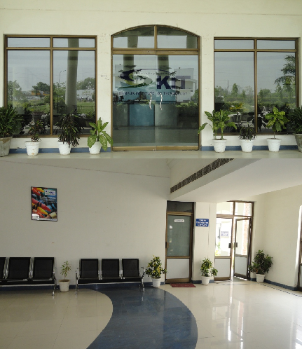 KIT Reception